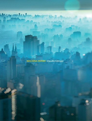 Serie of Claudio Edinger's aerial photos of São Paulo and RIo de Janeiro in Brazil.